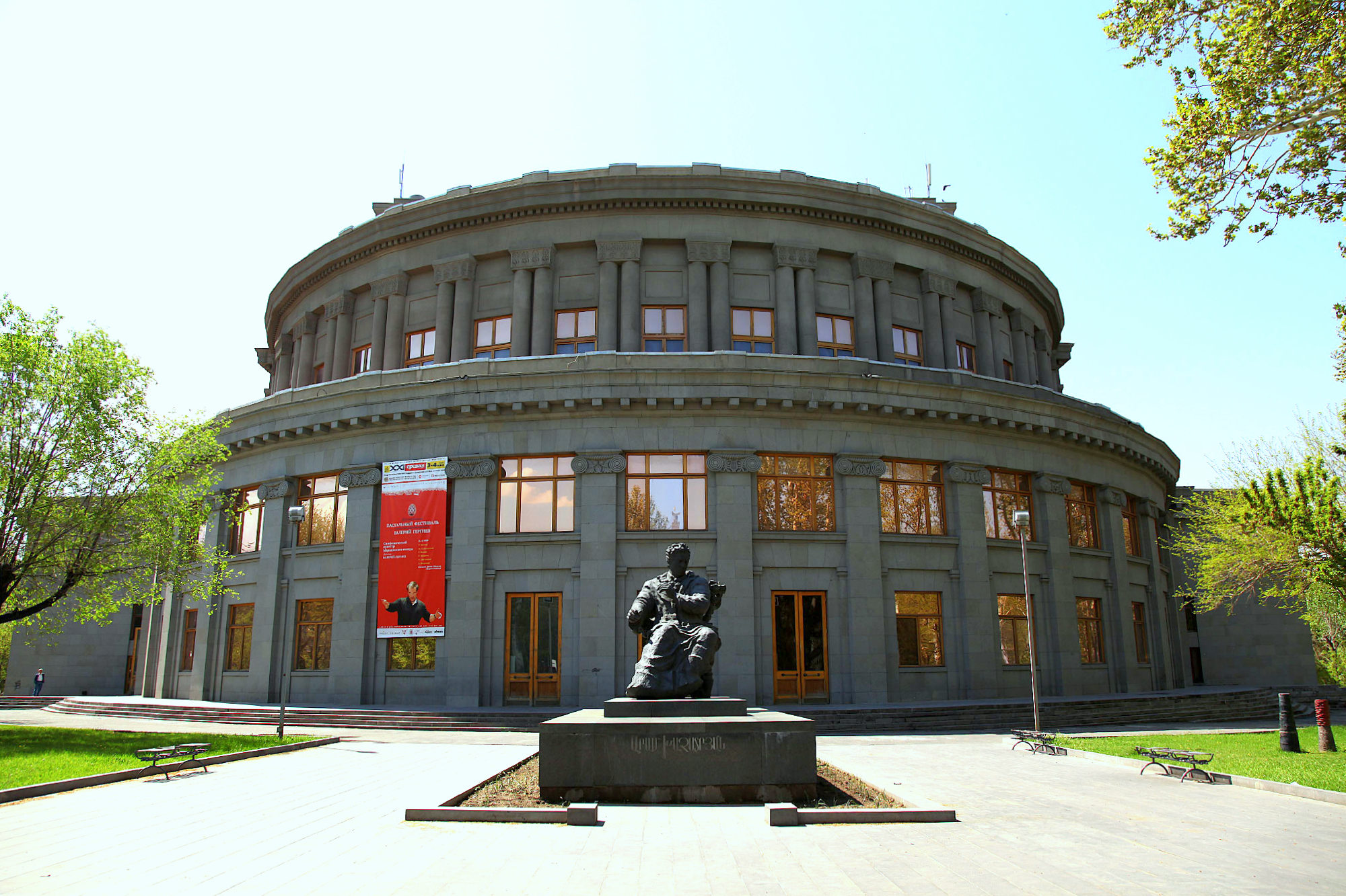 Aram Khachaturyan Monument in Yerevan